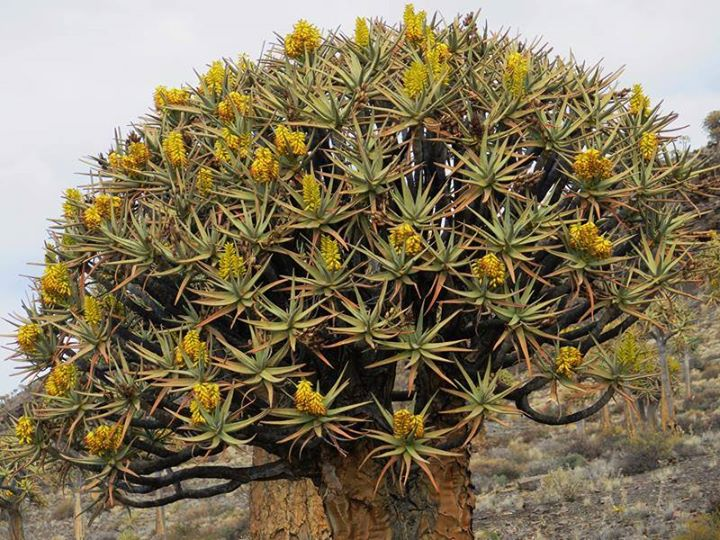 Aloe dichotoma Masson - the farm Gannabos 20km from Nieuwoudtville, South Africa